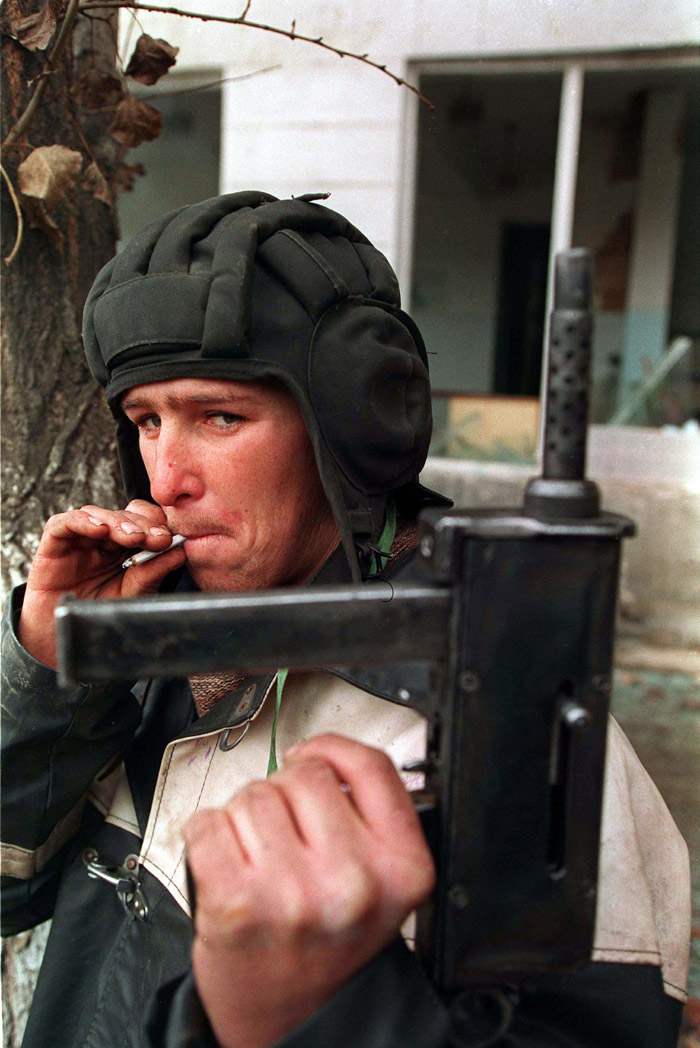 A Chechen fighter holds up his home-made gun during the battle for Grozny, January 1995.